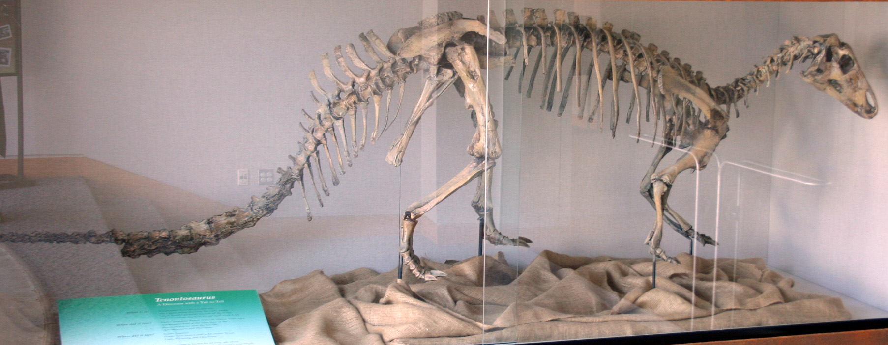 Tenontosaurus skeleton, North Carolina Museum of Natural Sciences.